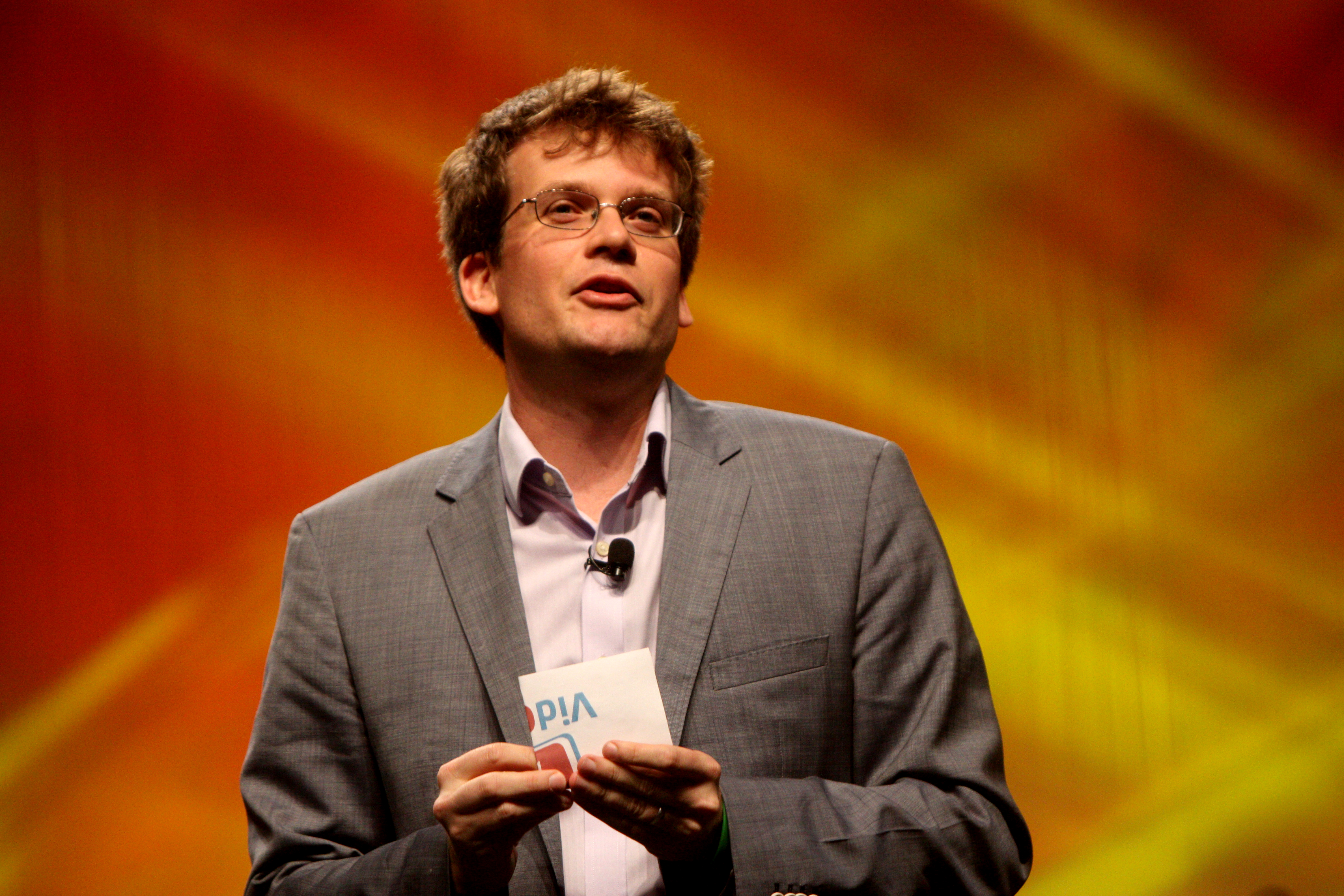 John Green speaking at VidCon 2012 at the Anaheim Convention Center in Anaheim, California.